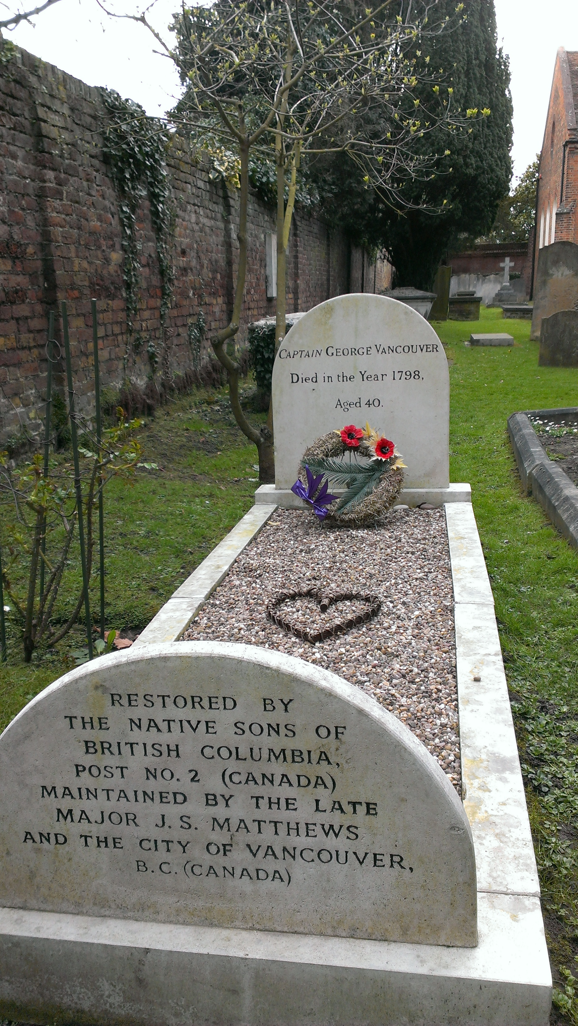 The grave of George Vancouver, explorer and founder of Vancouver. Situated in St Peter's parish church, Petersham, south west London.